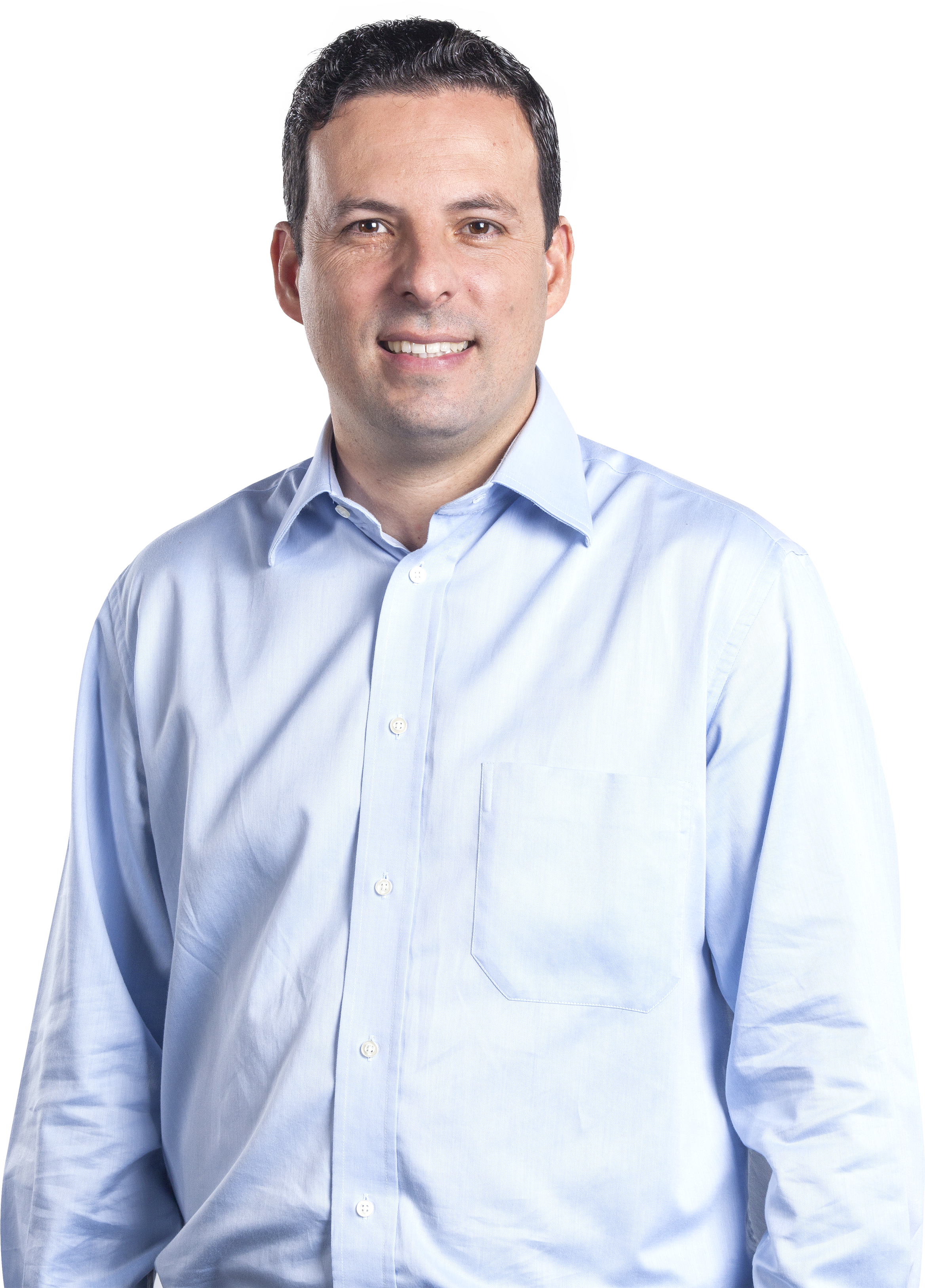 Teacher Wendel Mesquita, state representative.